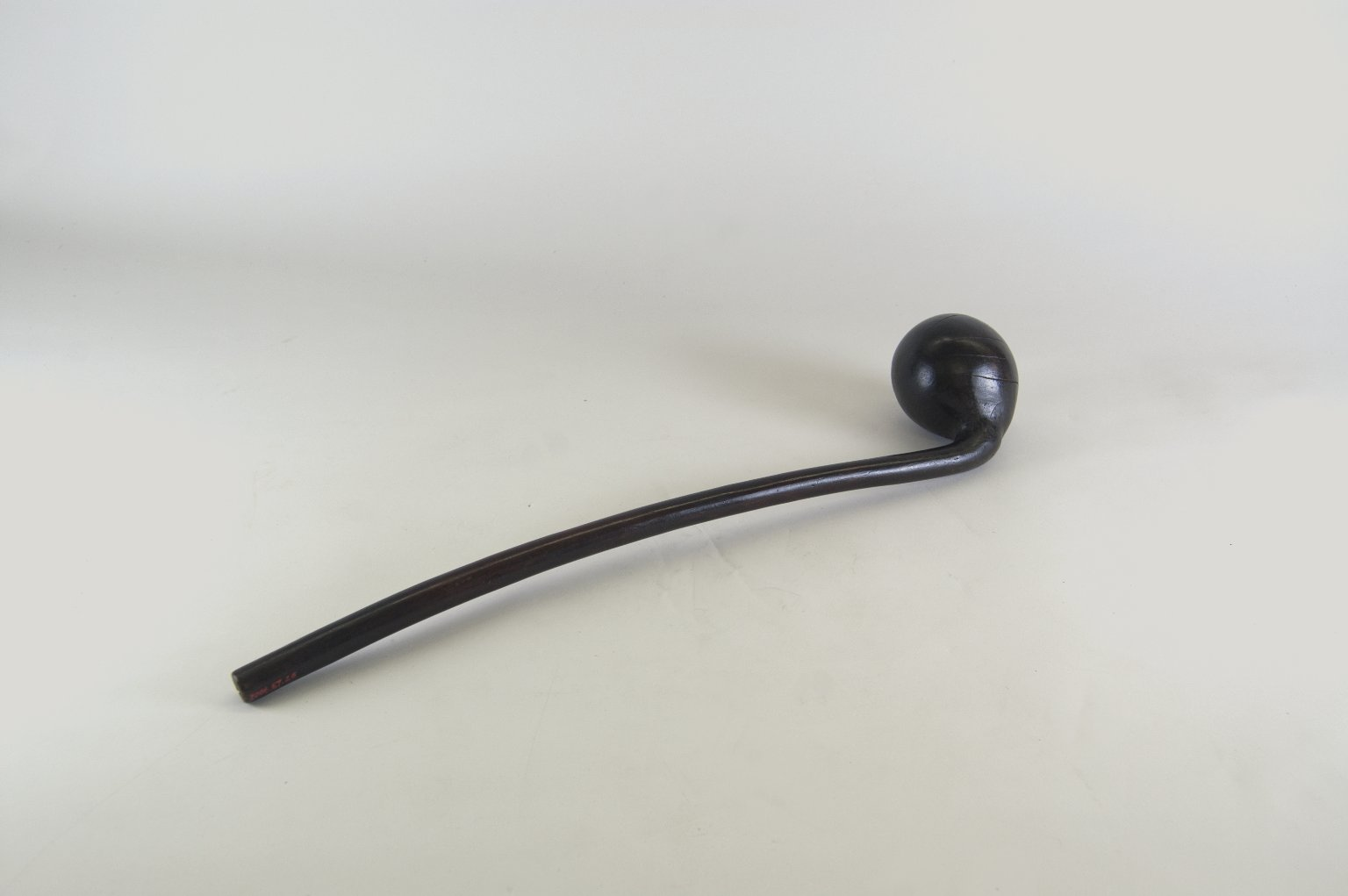 Knobkierie (Iwasa)